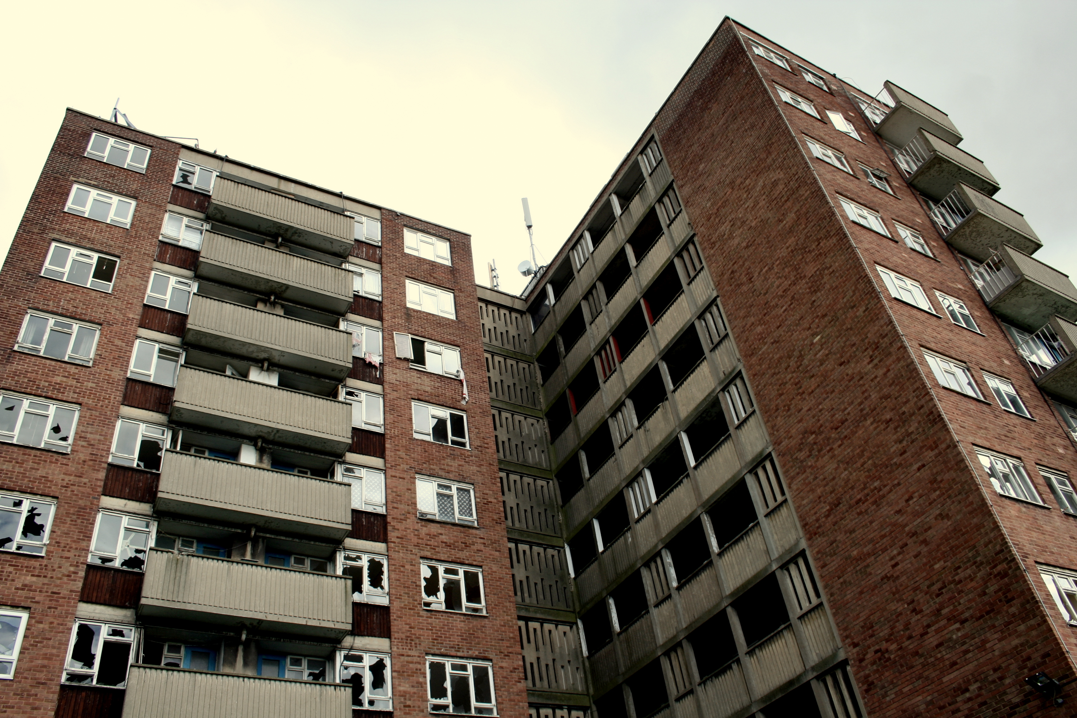 Elmet Towers, Swarcliffe, Leeds taken shortly before demolition on the 4th of September 2007.